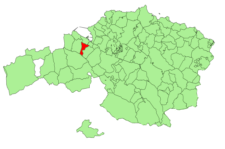 Ortuella municipality in the province of Biscay